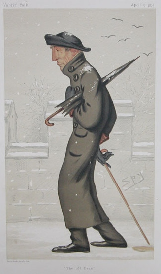 Caricature of Gerald Valerian Wellesley. Caption read "The old Dean".